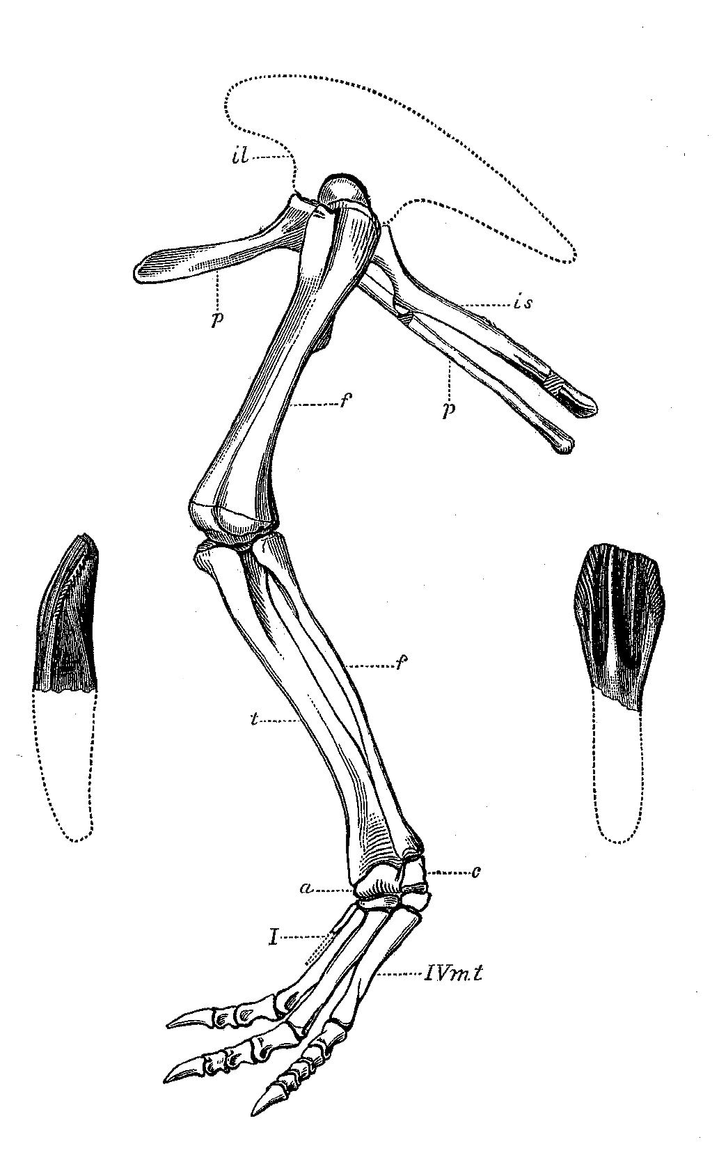 Tooth of Laosaurus altus (now Dryosaurus) Marsh; front view The same, side view. Both twice natural size. Bones of the left hind limb of Laosaurus altus (now Dryosaurus) Marsh; one eight natural size; il. ilium; is. ischium; p. pubis; p'. post-pubic bone; f. femur; I. tibia; f. fibula; a. astragalus; c. oalcaneum; I. first metatarsal; IVmt. fourth metatarsal.